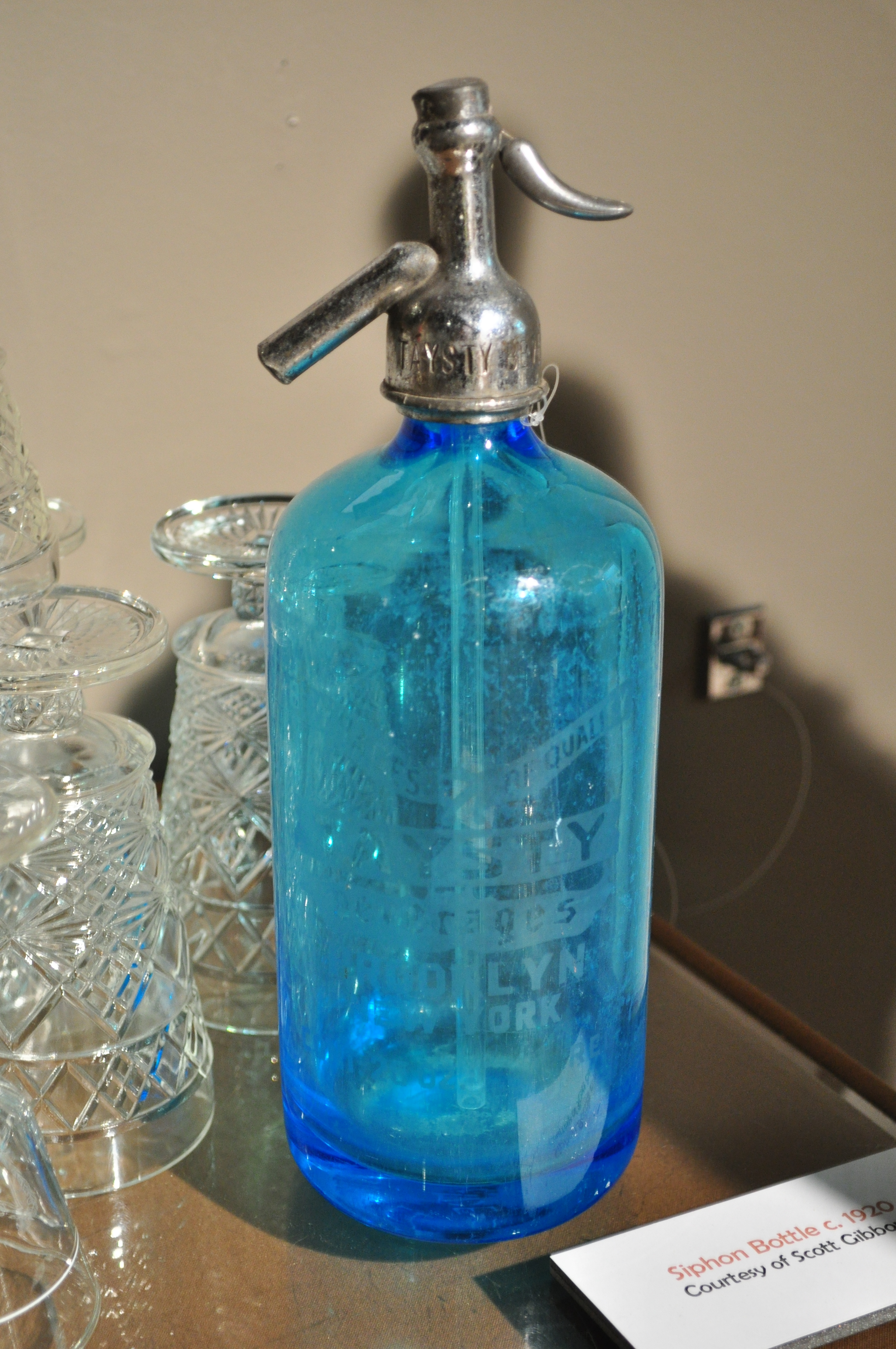 Blue siphon bottle, c. 1920. Photo taken at "Stills in the Hills", a 2012 exhibit about bootlegging during the Prohibition era in the United States, at White River Valley Museum, Auburn, Washington.